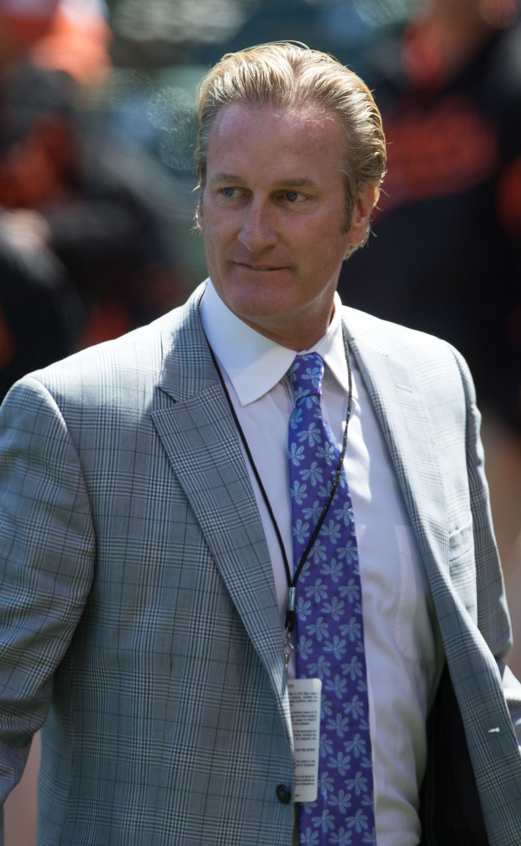 Los Angeles Dodgers broadcaster Steve Lyons – Los Angeles Dodgers at Baltimore Orioles April 20, 2013